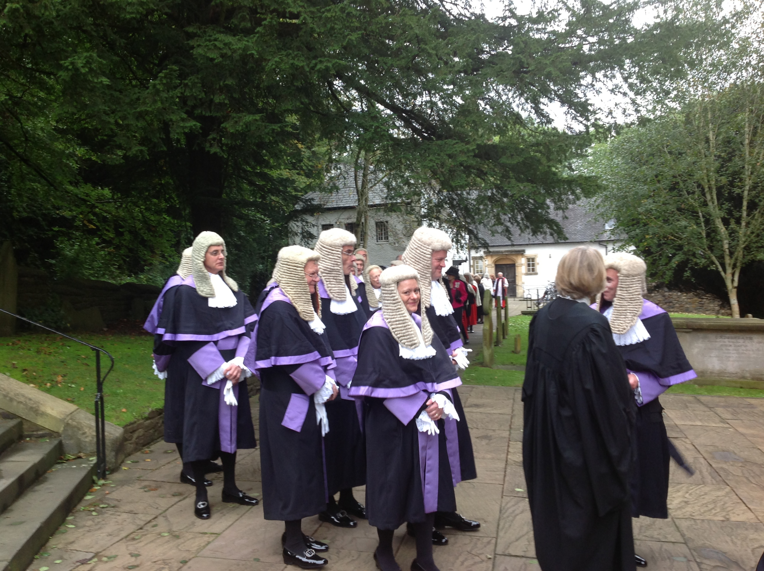 The Legal Service for Wales at Llandaff Cathedral. 13 October 2013